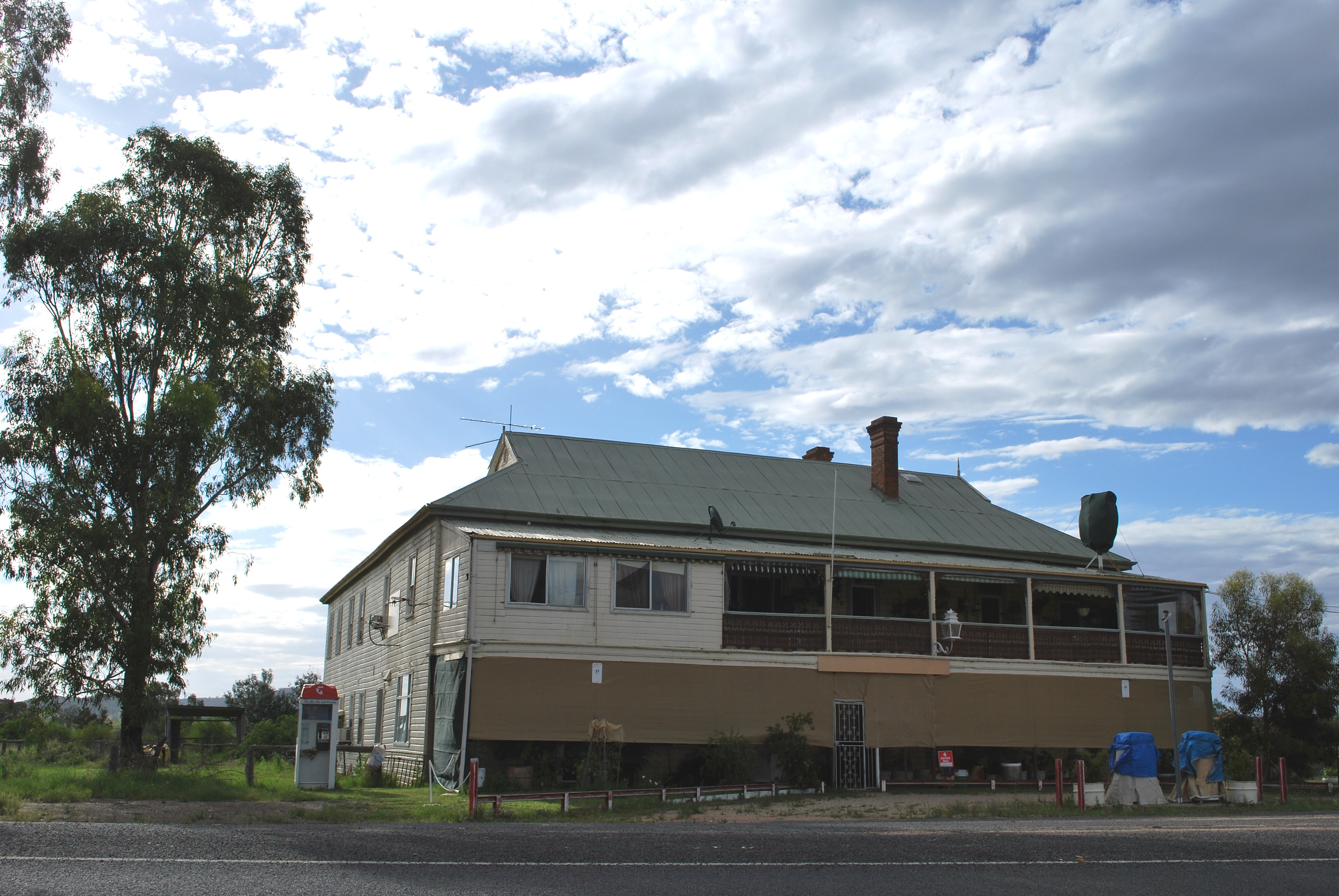 The former Gully Hotel at Warialda Rail, New South Wales